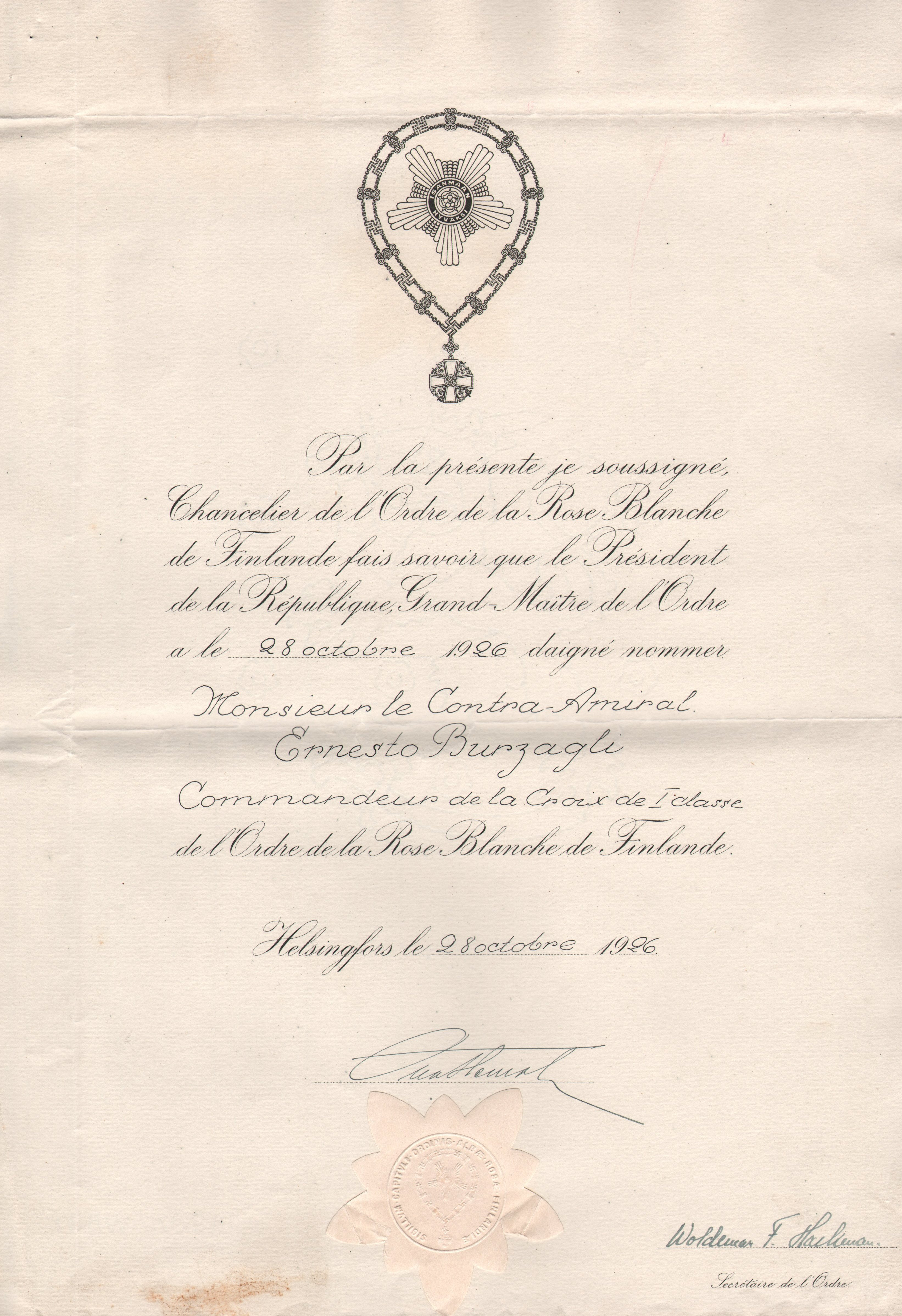 Diploma of award of Commander, 1st Class of the Order of the White Rose issued to the Rear Admiral Ernesto Burzagli. As the award was given to a foreigner, the diploma is in French.